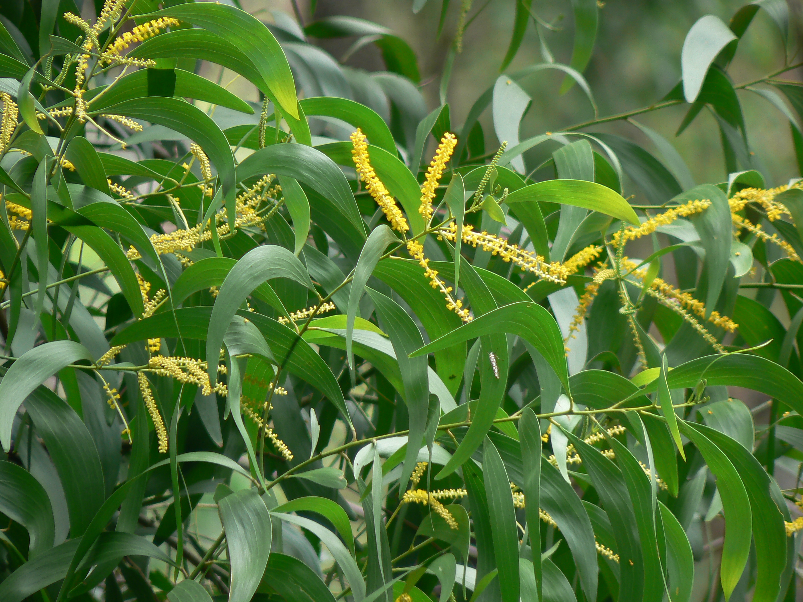 auri, black wattle, Darwin black wattle, earleaf acacia, earpod wattle, northern black wattle, Papuan wattle, tan wattle, wattle • Maori (Cook Islands): akasia • Marathi: अकाशिया akashia, ऑस्ट्रेलियन बाभुळ Australian babhool • Pohnpeian: tuhkehn pwelmwahu ... this tree has no leaves except when it is a seedling. When the seedling first sprouts, it has twice pinnate leaves. Subsequent leaves have enlarged leaf stalks with a little bit of true leaves and by the fifth "leaflet", it's all leaf stalk and no leaf! What you see are flattened leaf stalks called phyllodes, which are green and function as leaves. These are an adaptation to hot climates and droughts. Flowers in loose, yellow-orange spikes at leaf axils or in clusters of spikes at stem tips; flowers mimosa-like, with numerous free stamens ... Note: Identification or description may not be accurate; it is subject to your review.